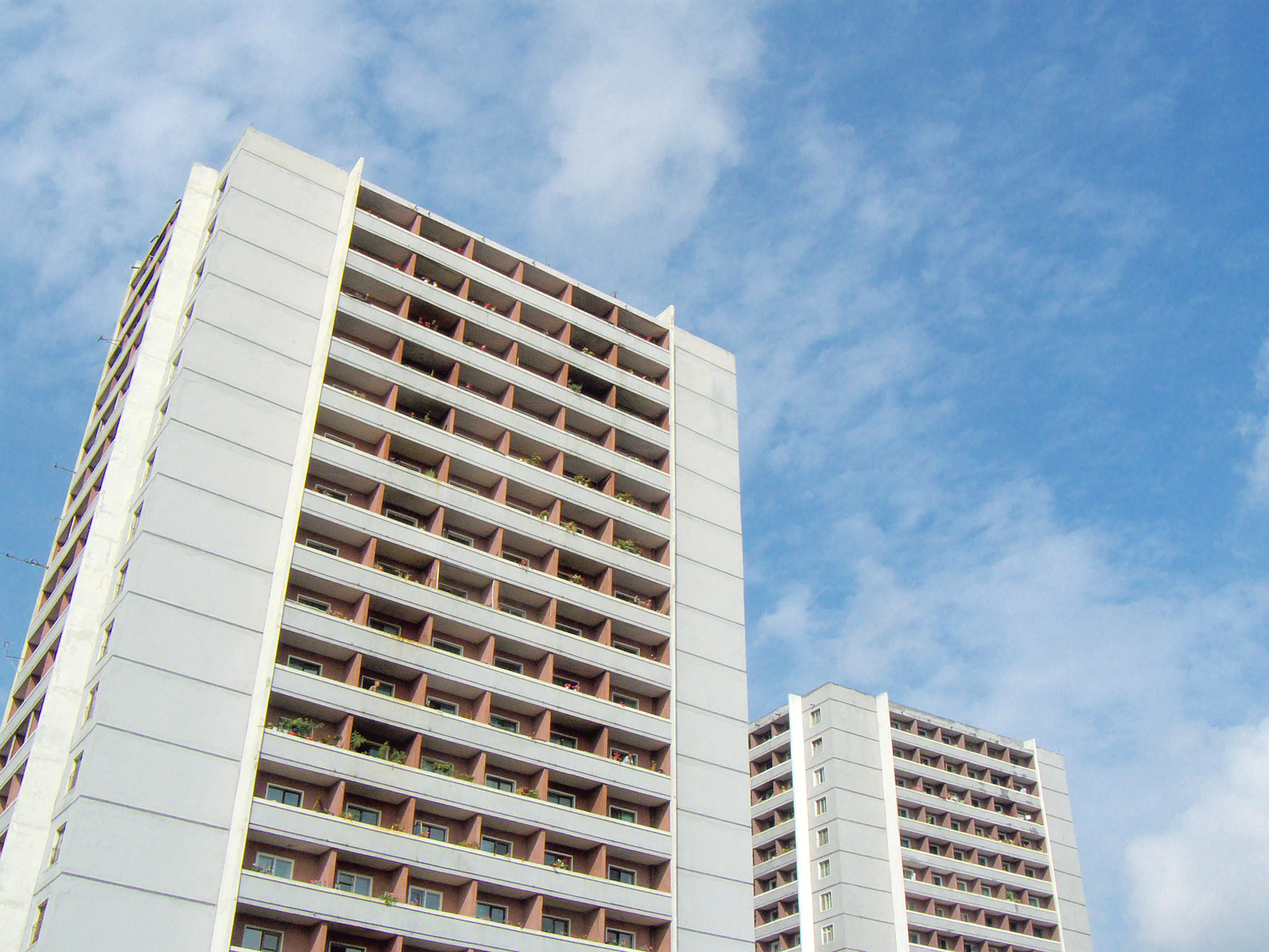 The majority of the residents in Pyongyang reside in dull monolithic apartment blocks much like the ones pictured. Every family is given a unit.